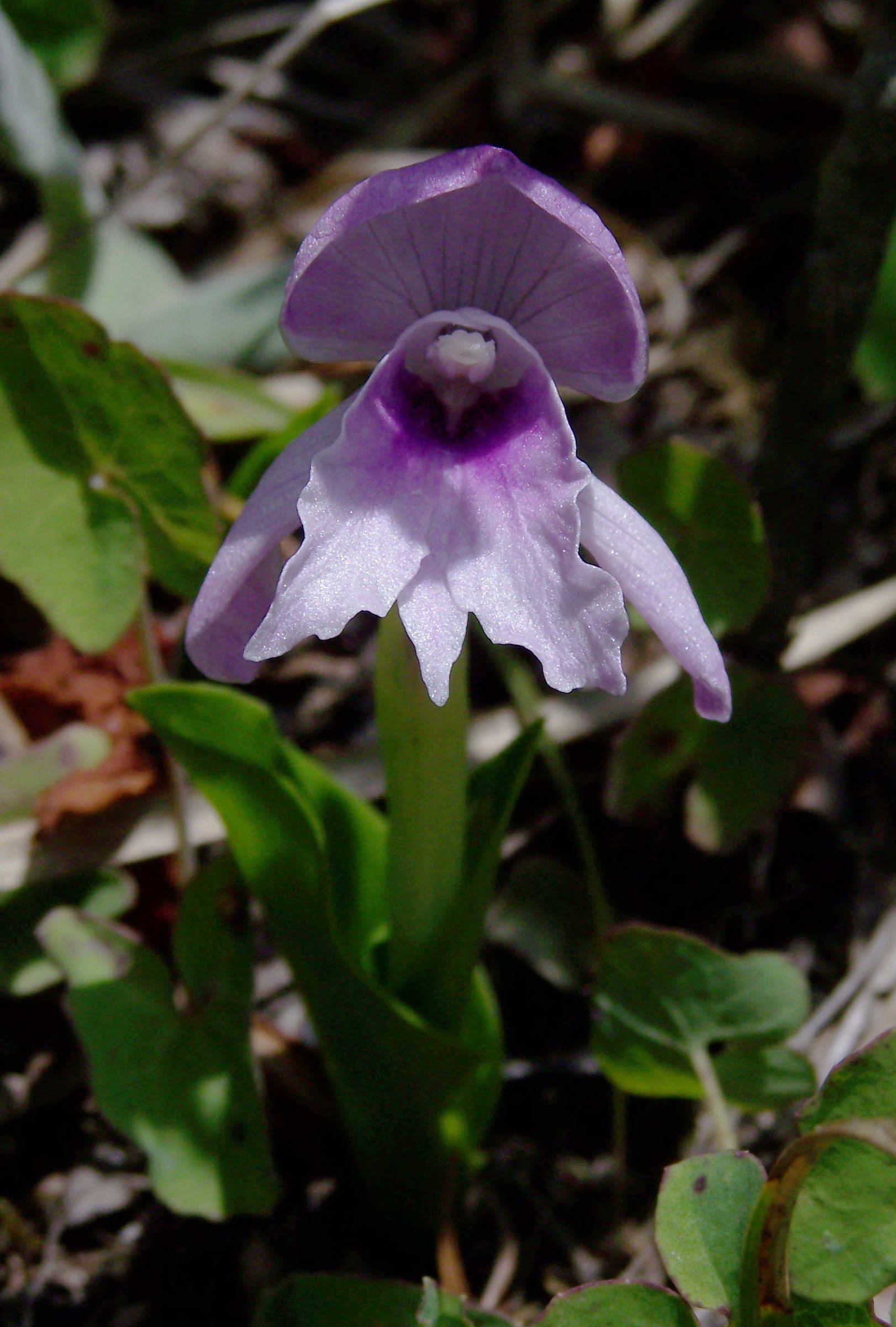 See User:Woudloper/Himalayan flora. A species of Roscoea (maybe R. alpina?). 3200 m, May, Poon Hill, Annapurna region, Nepal [Other than the apparently tripartite labellum, fits the description of R. alpina very well. Peter coxhead (talk) 13:08, 12 September 2012 (UTC)]